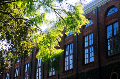 Main building of the The Doon School, India.